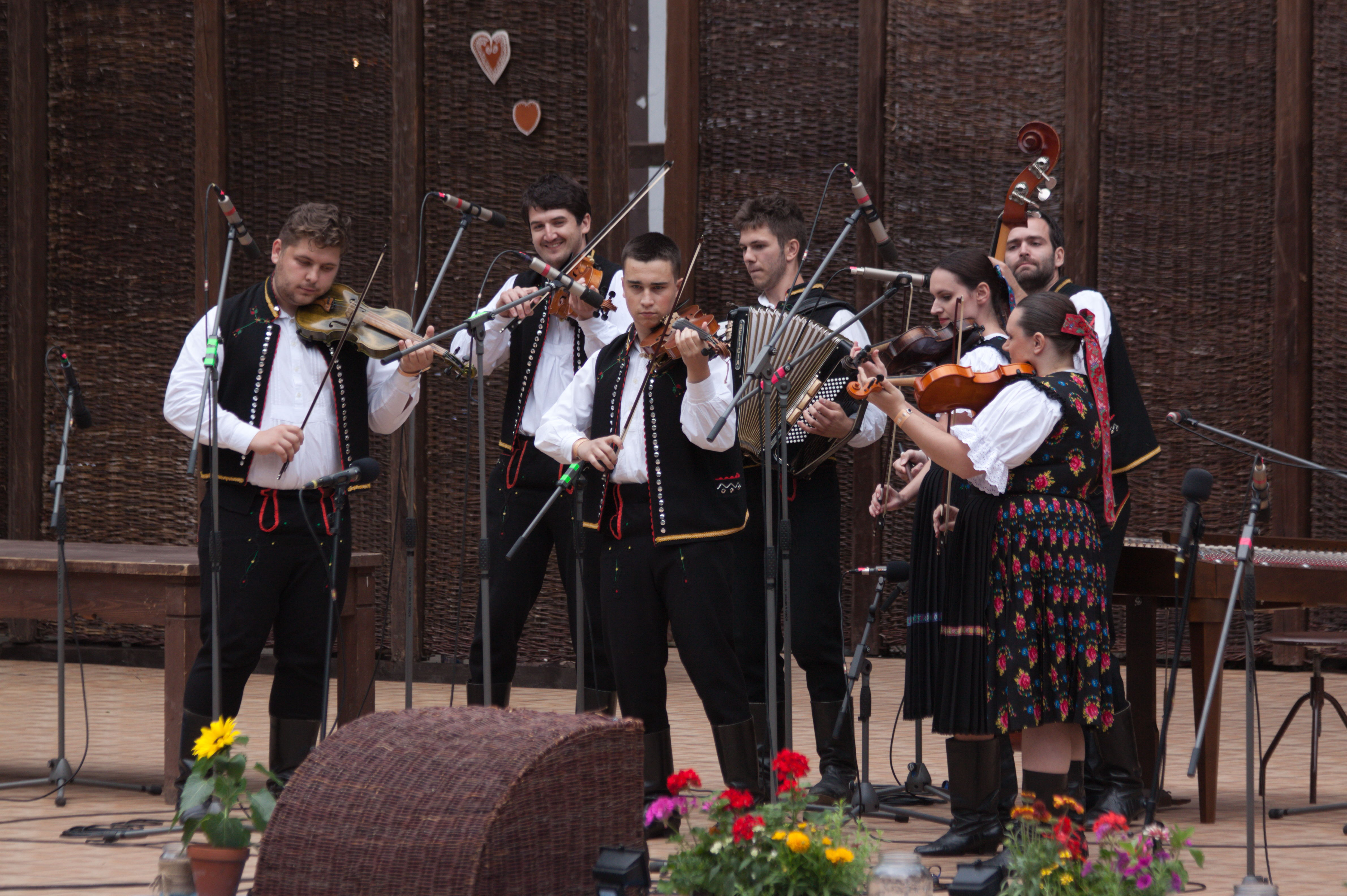 Carpathian Ethnography Project, Slovakia, third day, Myjava Festival 2017. Photo quality will be improved later.